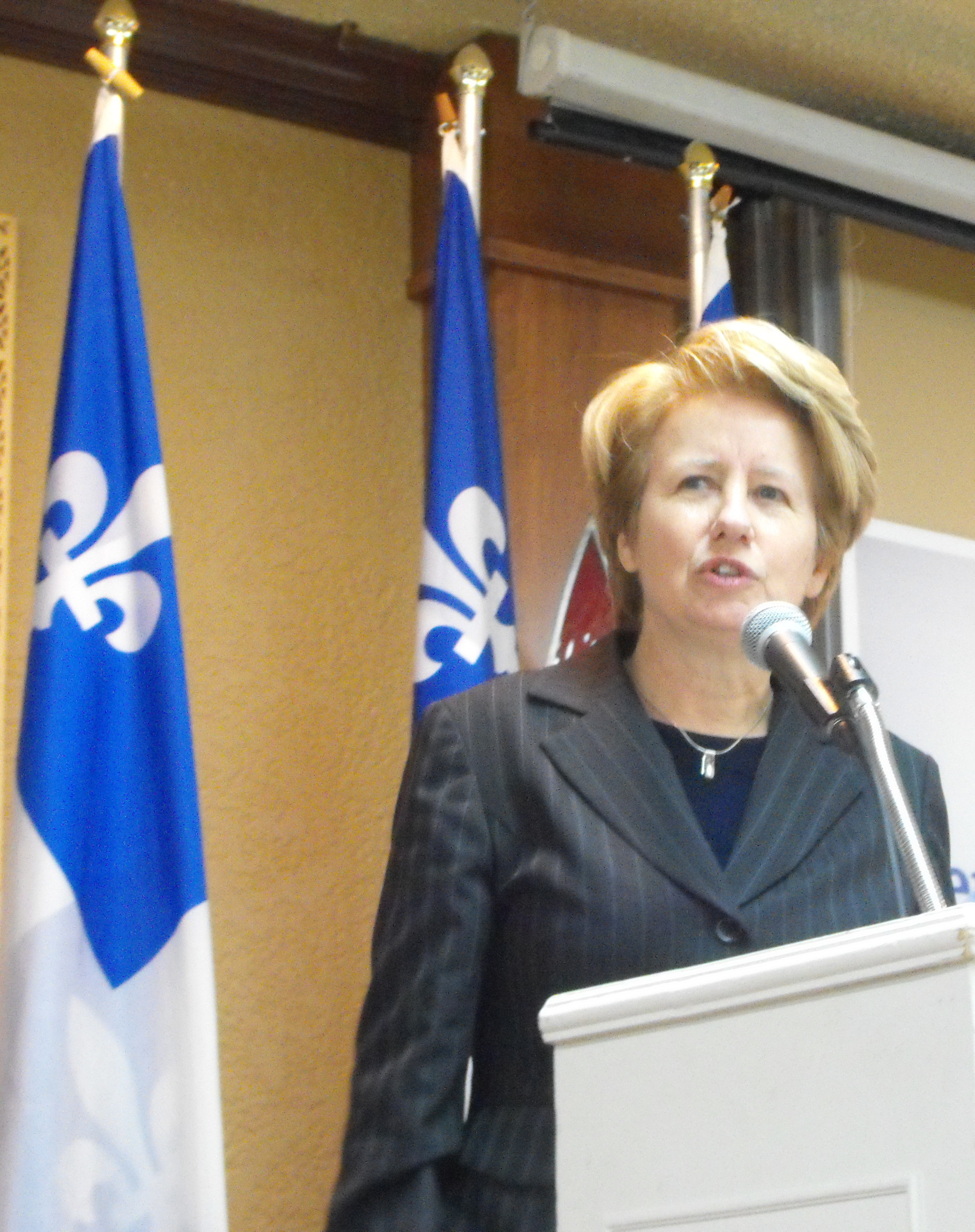 The Member of National Assembly of Quebec for the riding of Taschereau, Agnès Maltais.